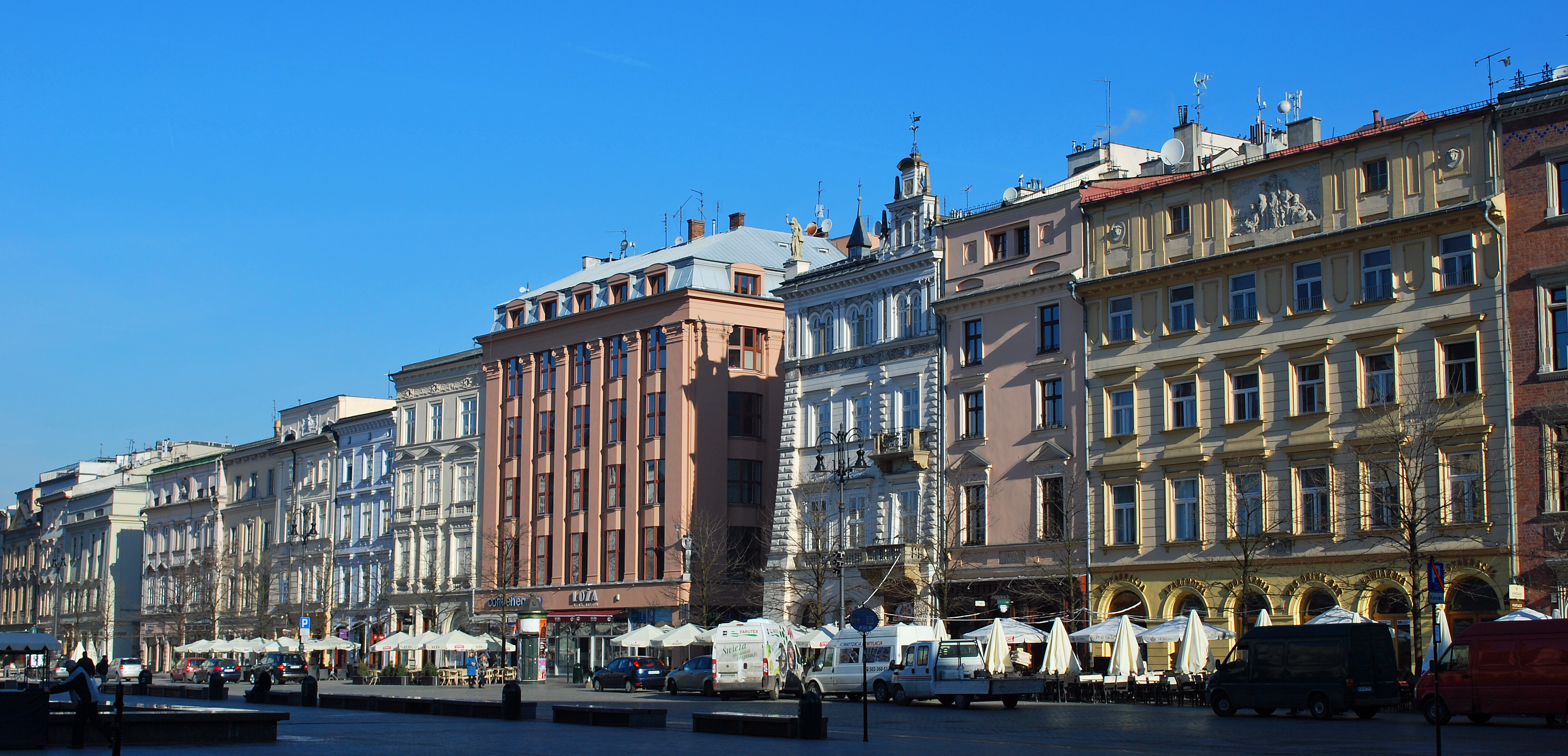 Main Market square, north frontage (A-B Line), Old Town, Krakow, Poland